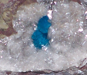 Cavansite in apophyllite from Wagholi, Poona, Maharashtra, India. My personal collection - image made by me.